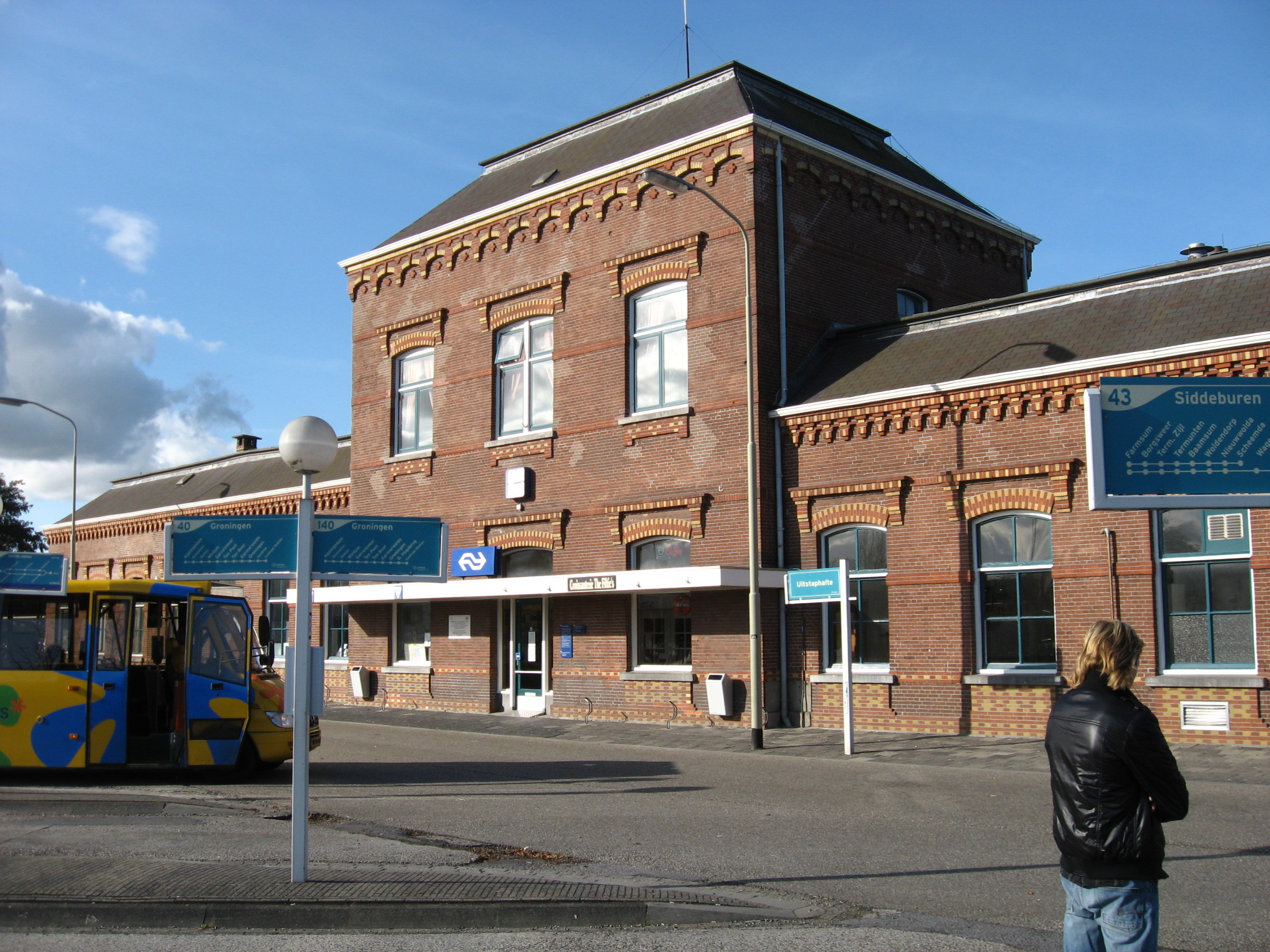 Delfzijl station streetside.